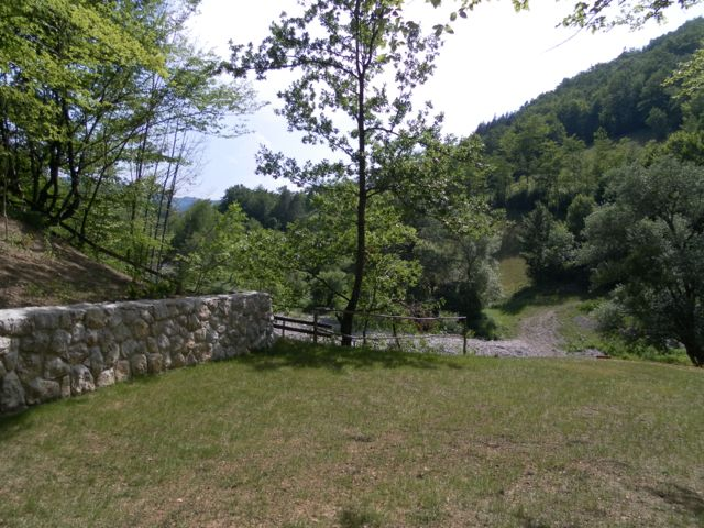 Sokolica rock, above the river Rzav, Central Serbia